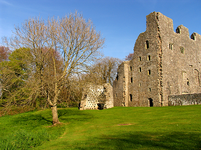 Oxwich Castle in April